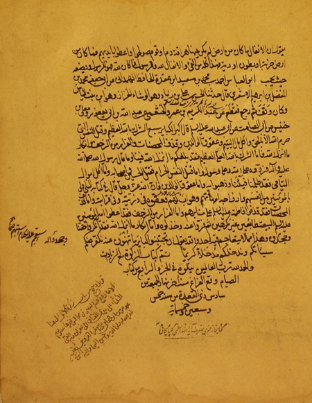 Manuscript of book "Tazhib al-Ahkam" (تهذيب الاحكام) By Sheikh Tousi, in 575 H.